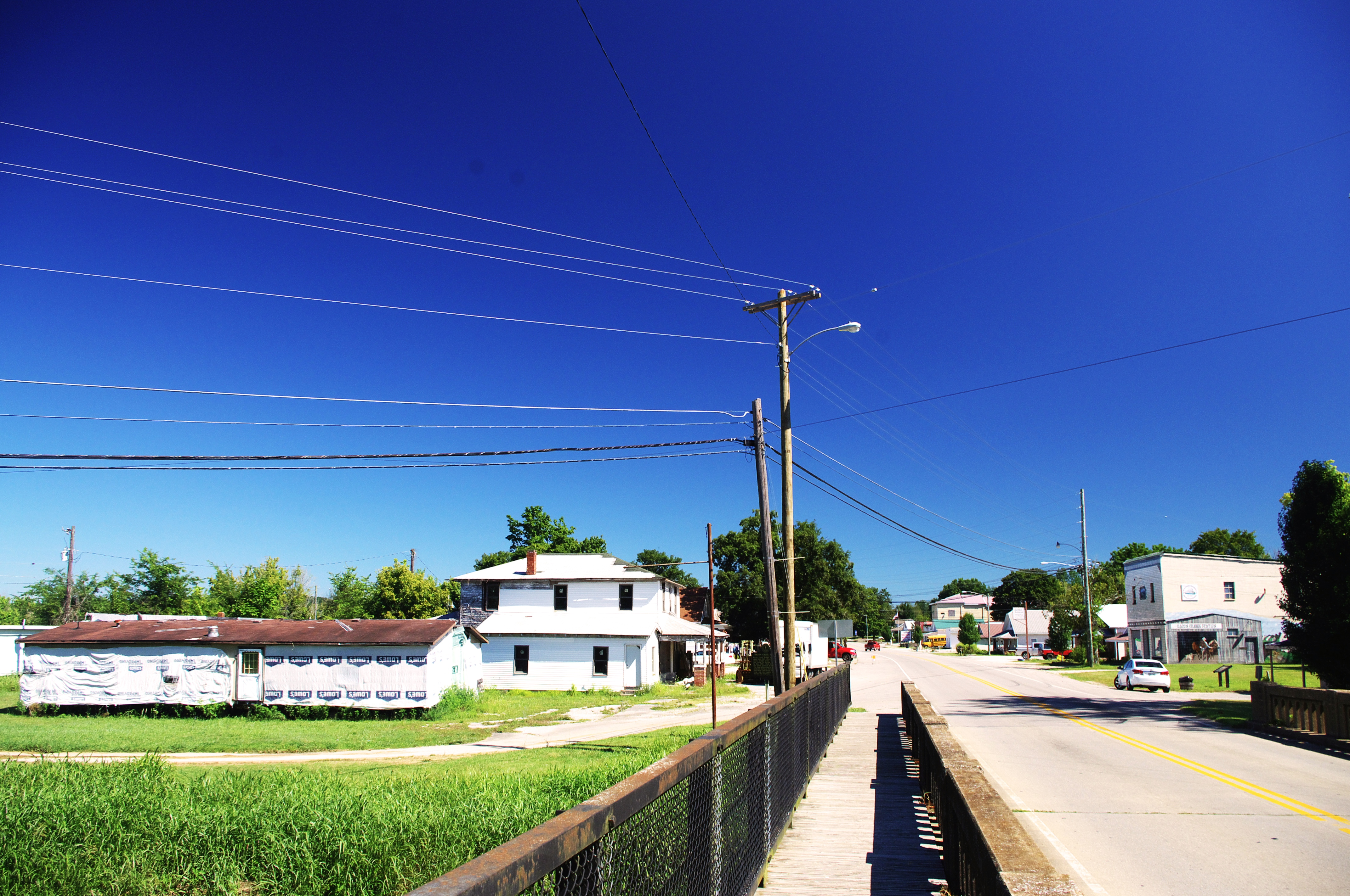 U.S. Route 31W in Bonnieville, Kentucky, United States, viewed looking north from the Bacon Creek Bridge.